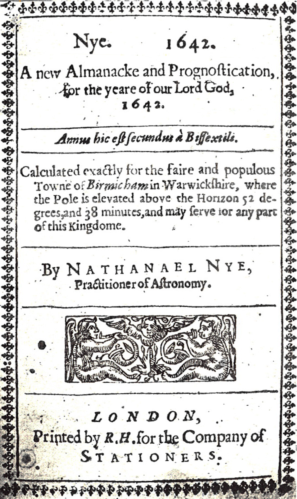 Frontispiece of A new Almanacke and Prognostication for the yeare of our Lord God 1642 by Nathaniel Nye.